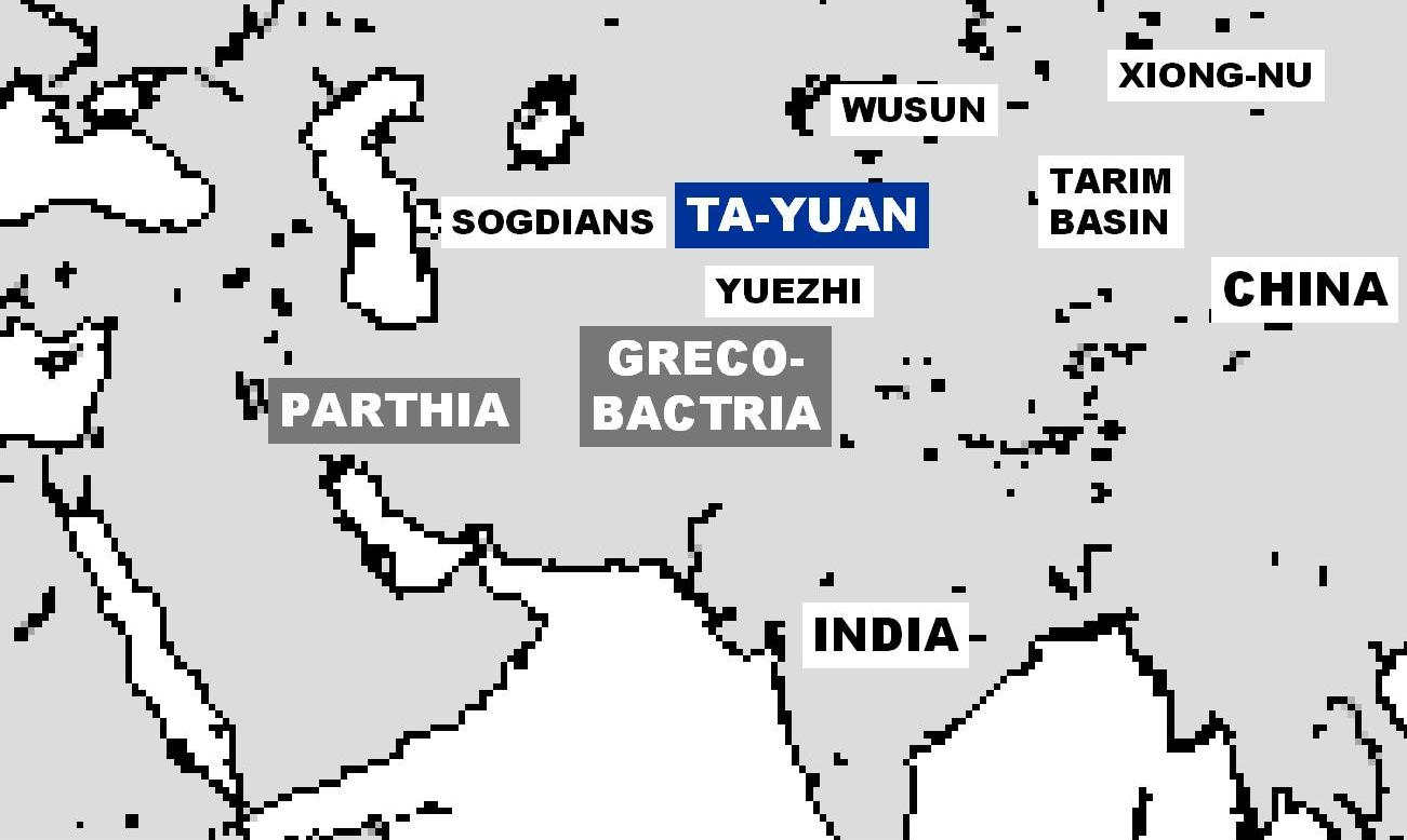 Personal map of Ta-Yuan and Central Asia, made in 2005. Released under GDFL.